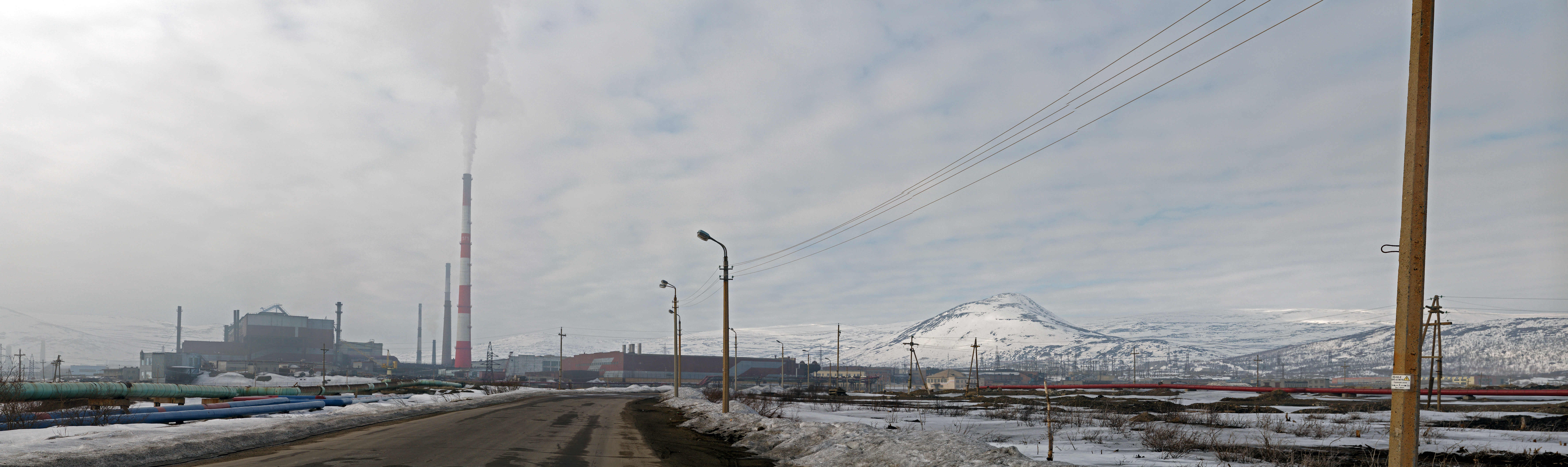 Panorama from Monchegorsk.